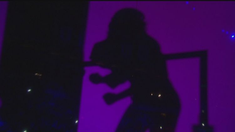 Lady Gaga